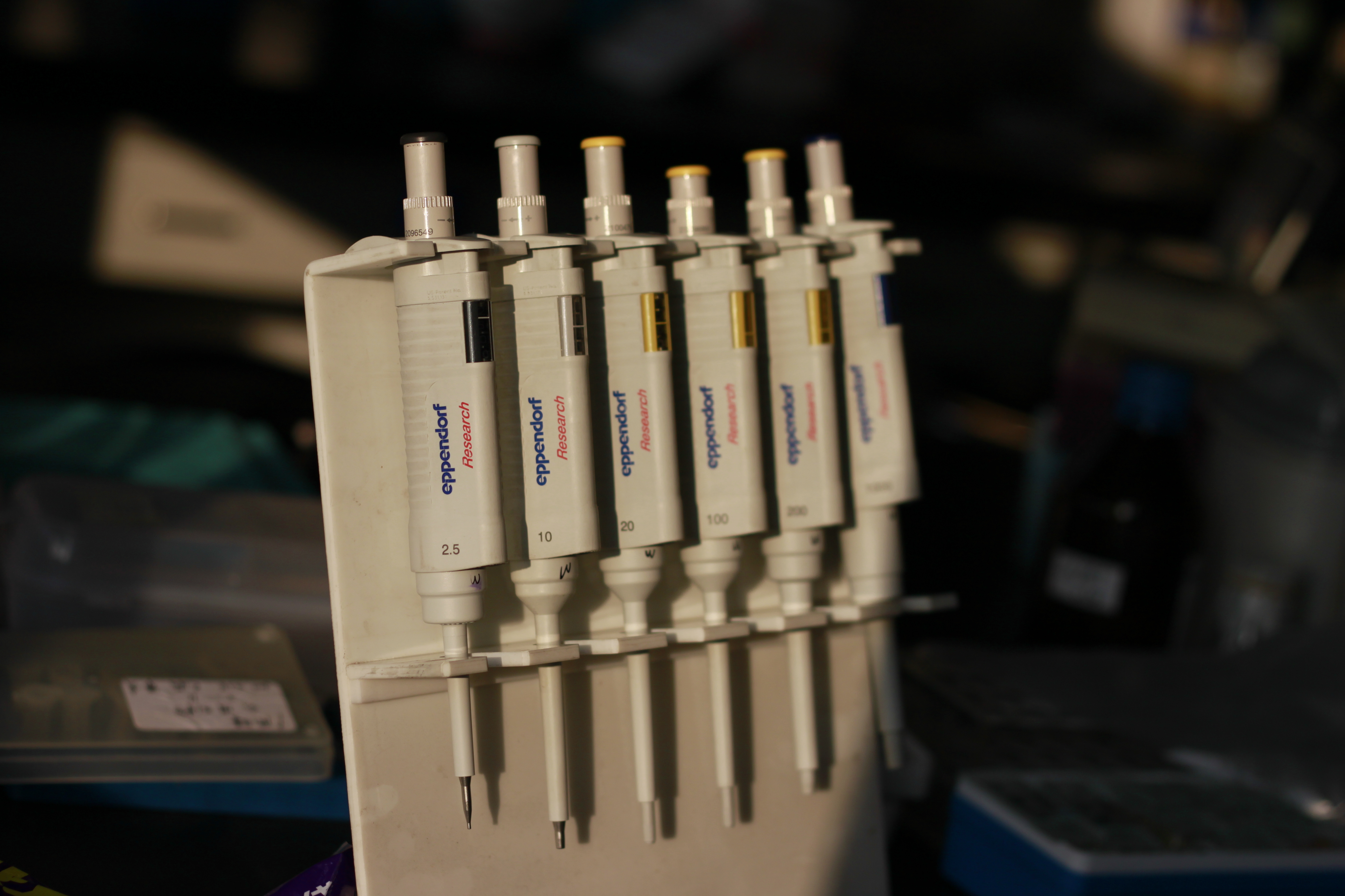 A set of pipet used in a molecular biology laboratory